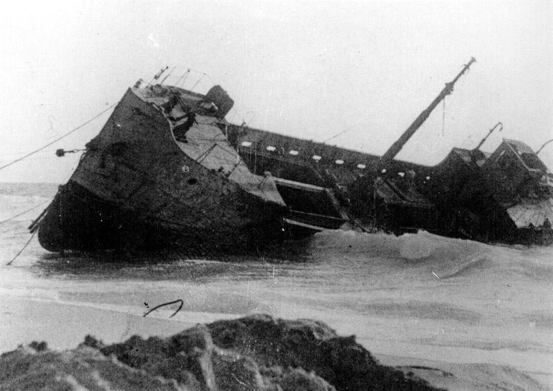 Ship Hannah Senesh, Immigration to Israel